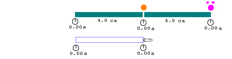 Twinparadox/from the twin's perspective, pic1